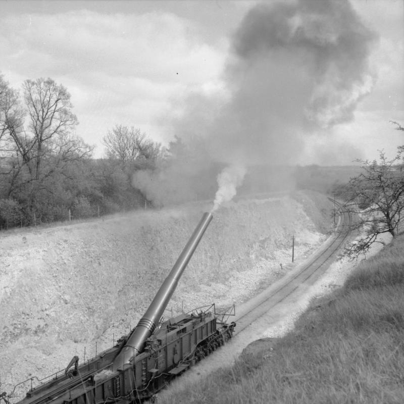 The British Army in the United Kingdom 1939-45 The 18-inch railway gun 'Boche-Buster' fires from a cutting near Bishopsbourne in Kent, 7 May 1941.